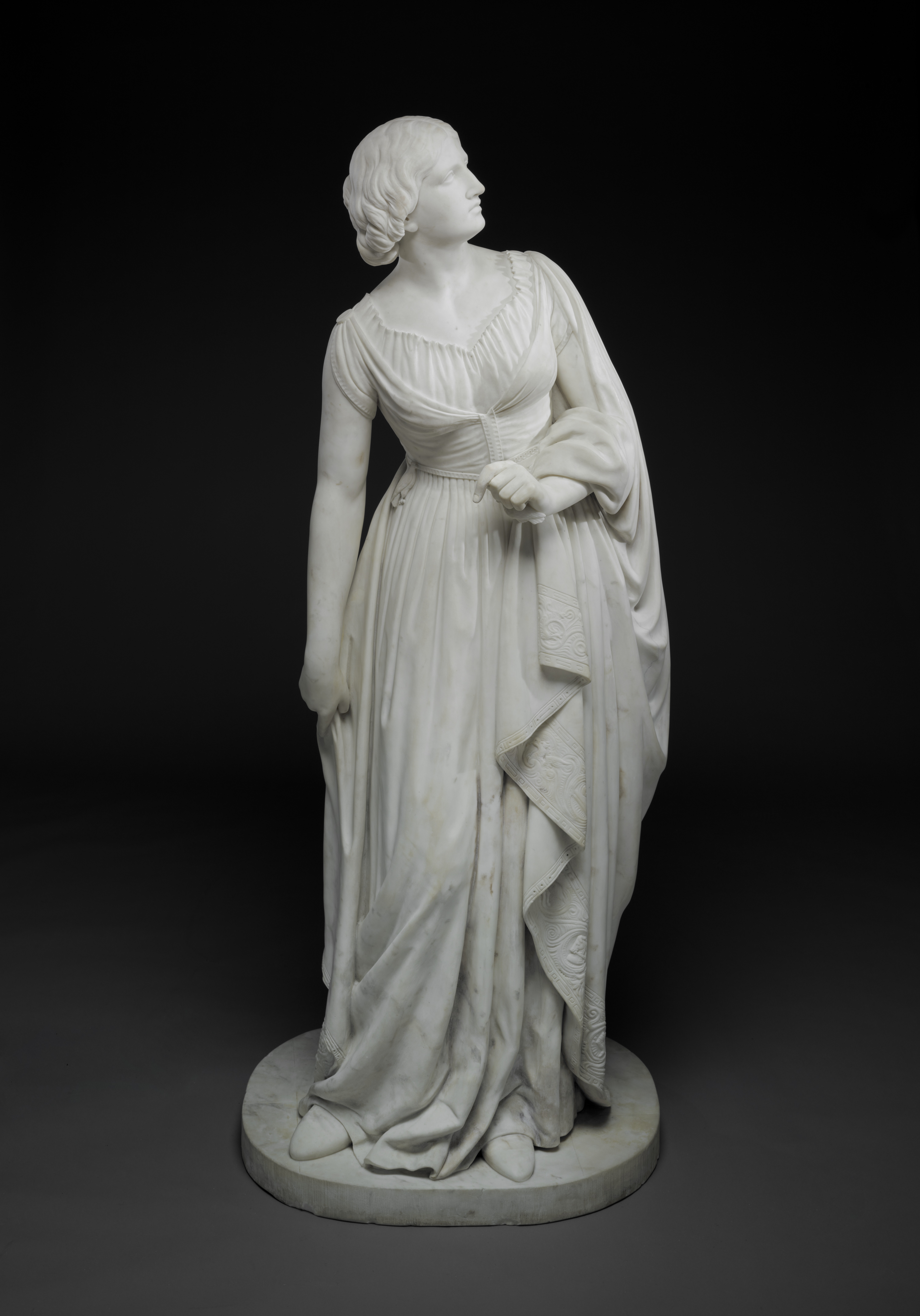 Anne Whitney, Lady Godiva, marble sculpture, by 1864, Dallas Museum of Art